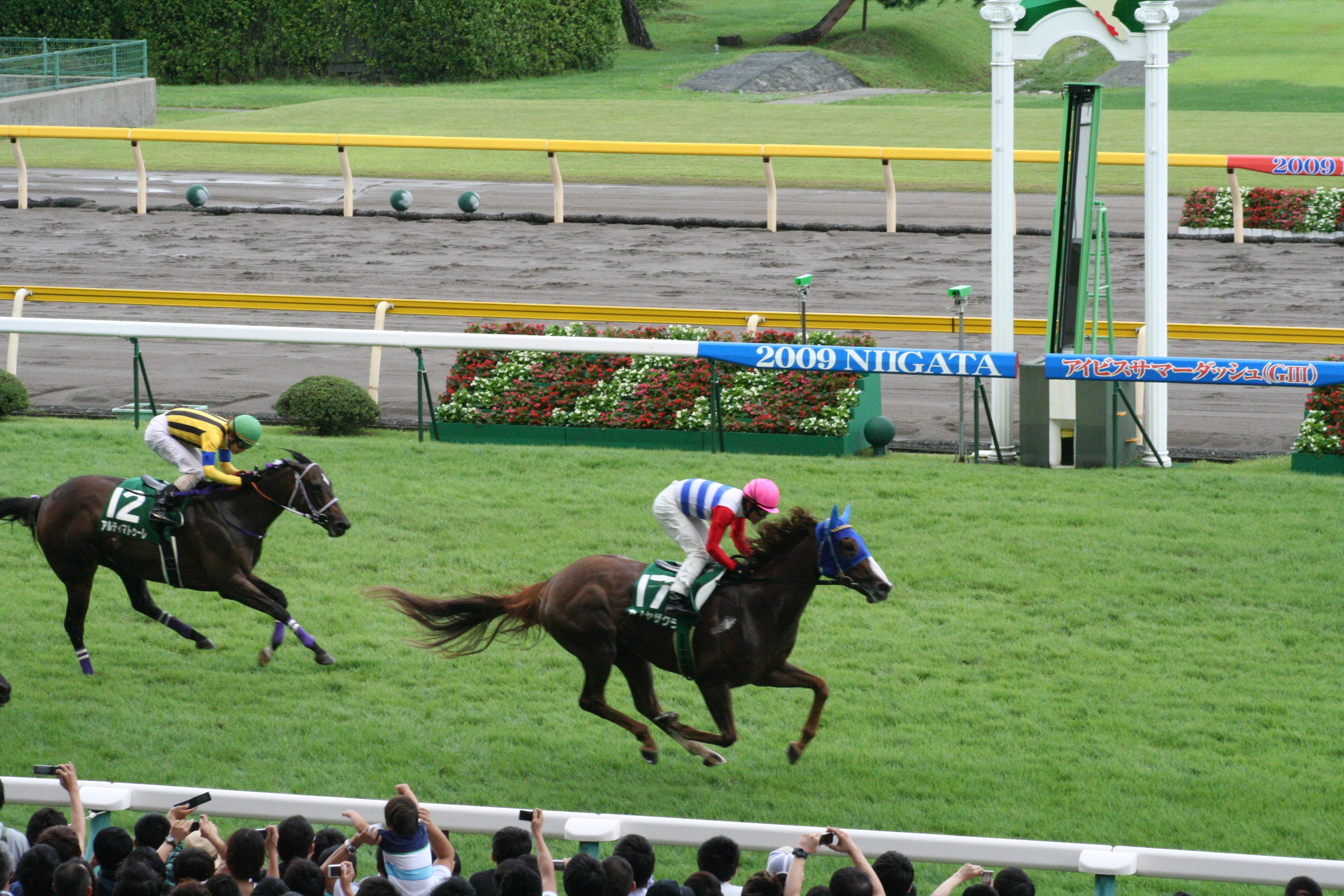 The 8th Ibis Summer Dash